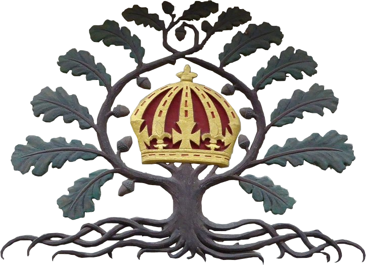 Royal Oak. Which Charles II hid in to escape the roundheads and Cromwell.